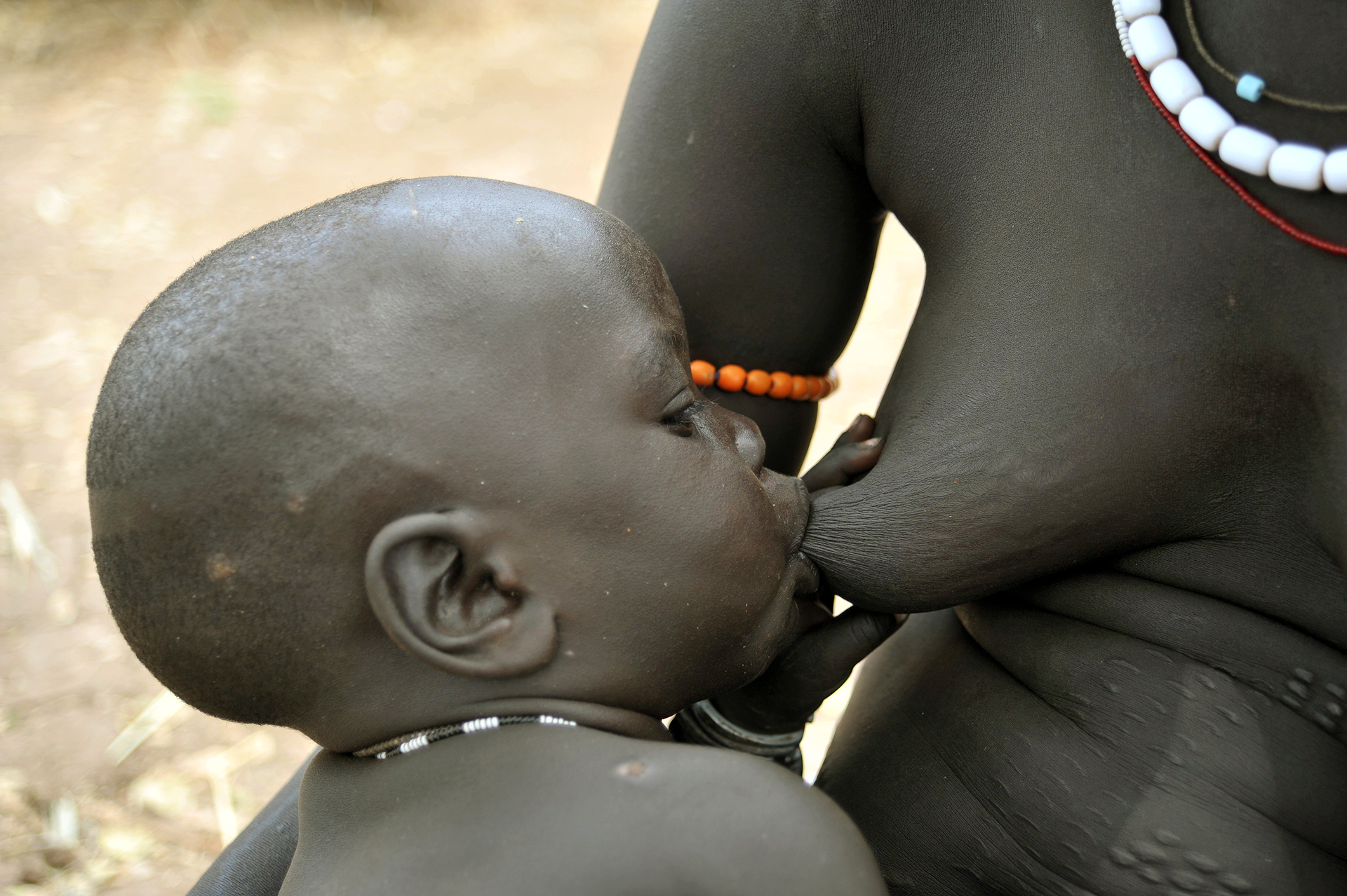 People and places in the Omo Valley, Ethiopia.